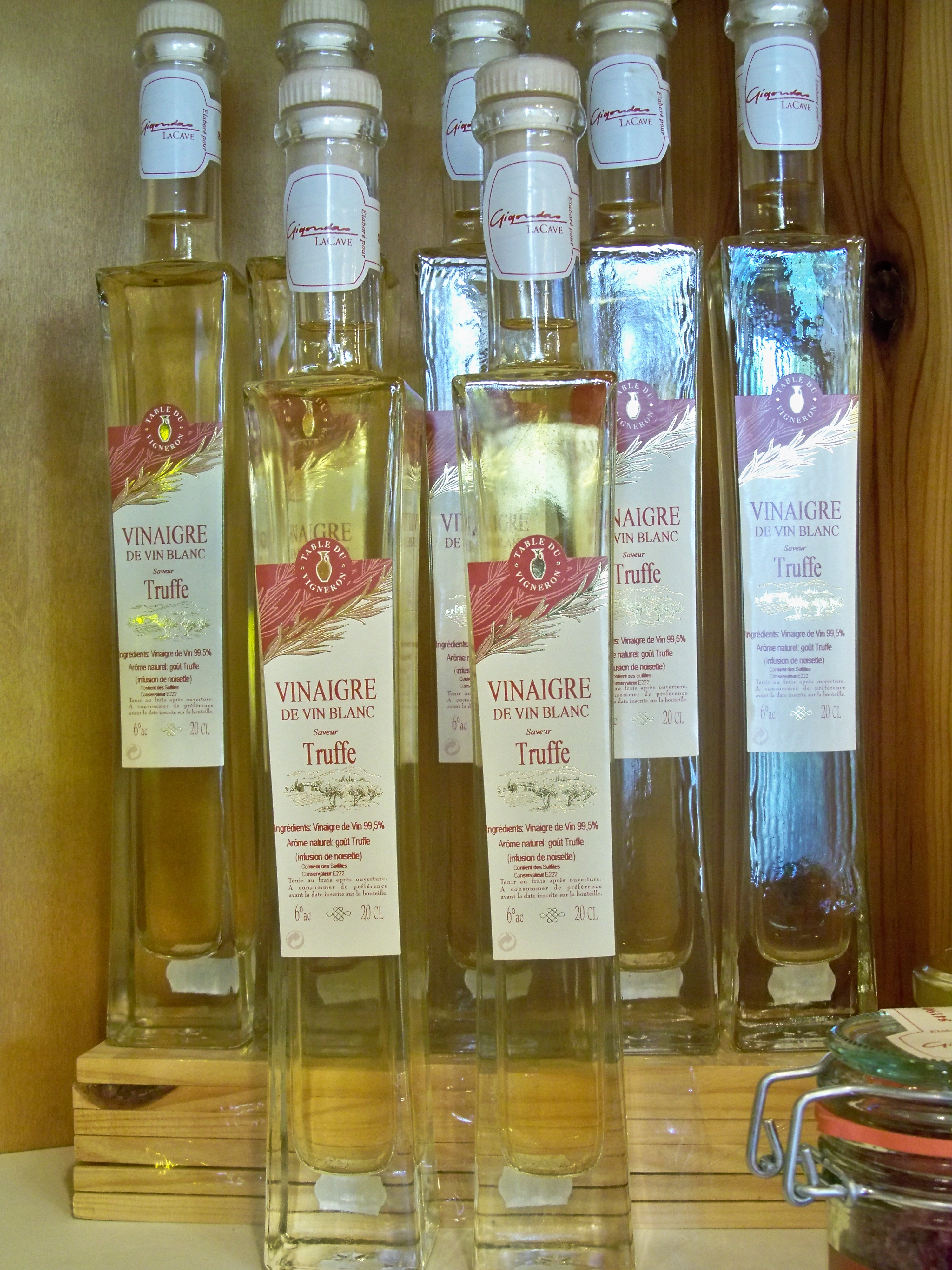 vinegar with truffles